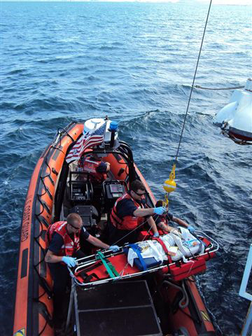 USCG personnel transfer Haitians onboard a cutter to receive medical attention following the 2010 earthquake.